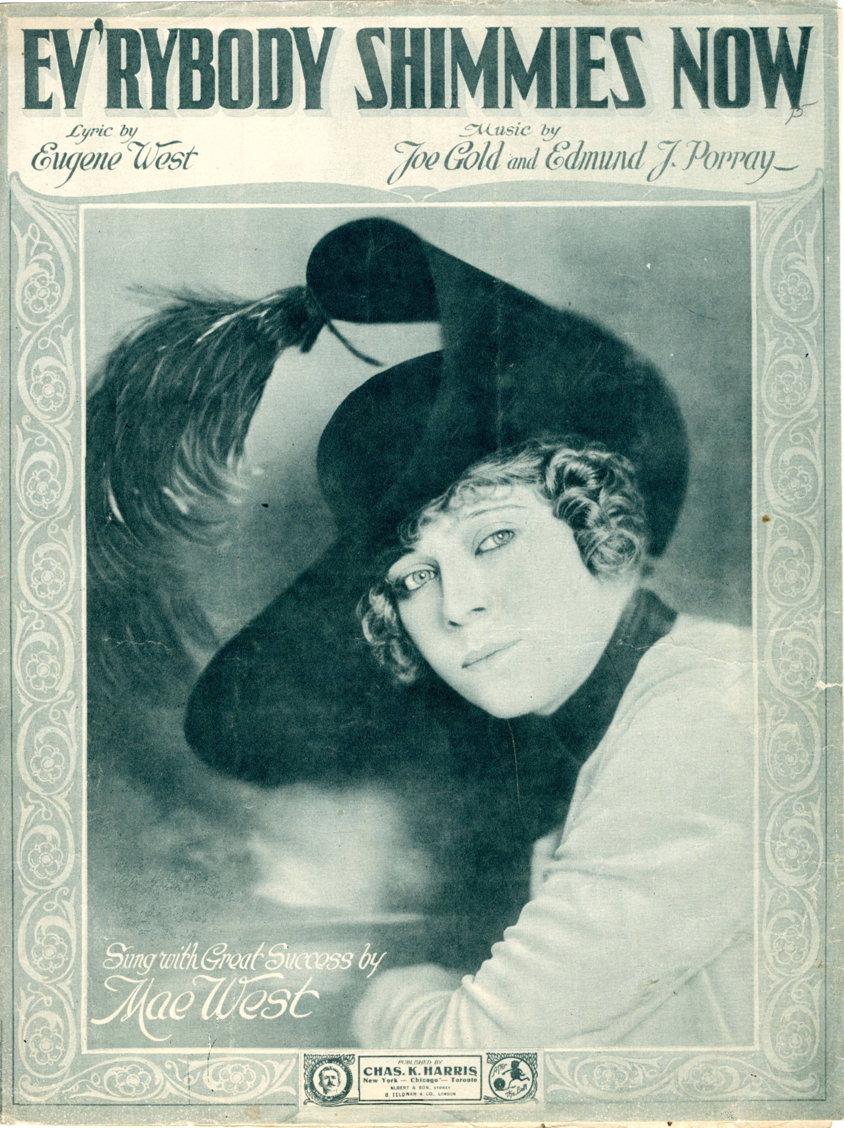 Sheet music cover: "Ev'Rybody Shimmies Now" 1 vocal score (3 p.) ; 32 cm. Illustrated cover with image of Mae West.